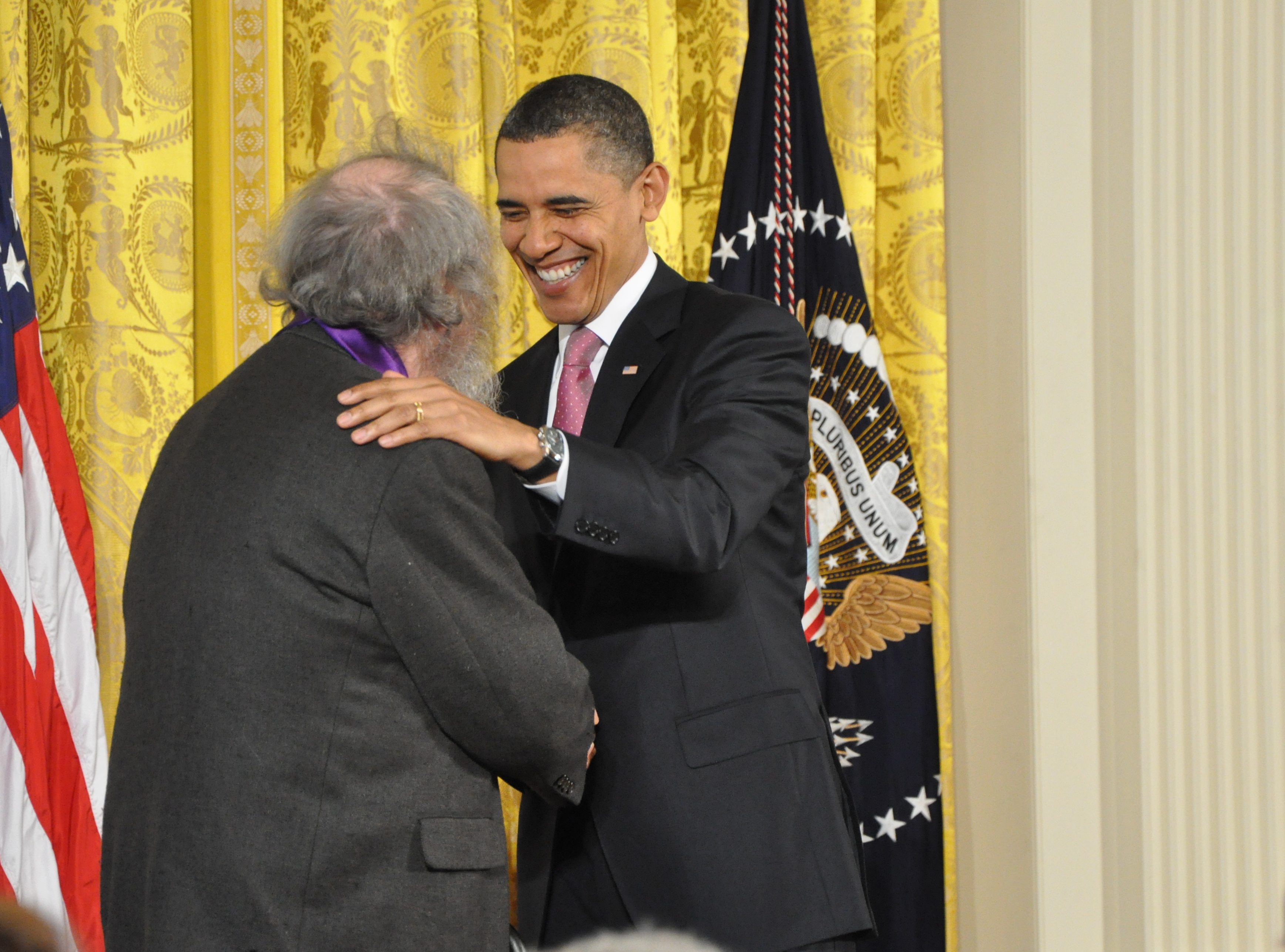 Amanda Bossard/Medill News Service